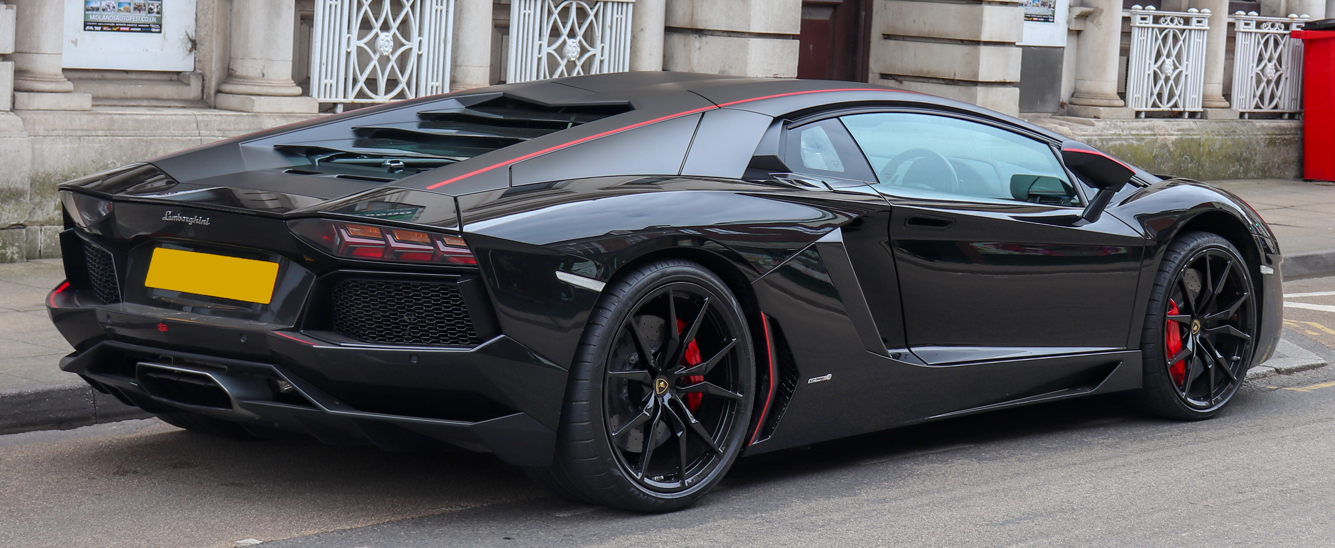 2015 Lamborghini Aventador LP700-4 Pirelli Edition 6.5 Rear Taken in Warwick